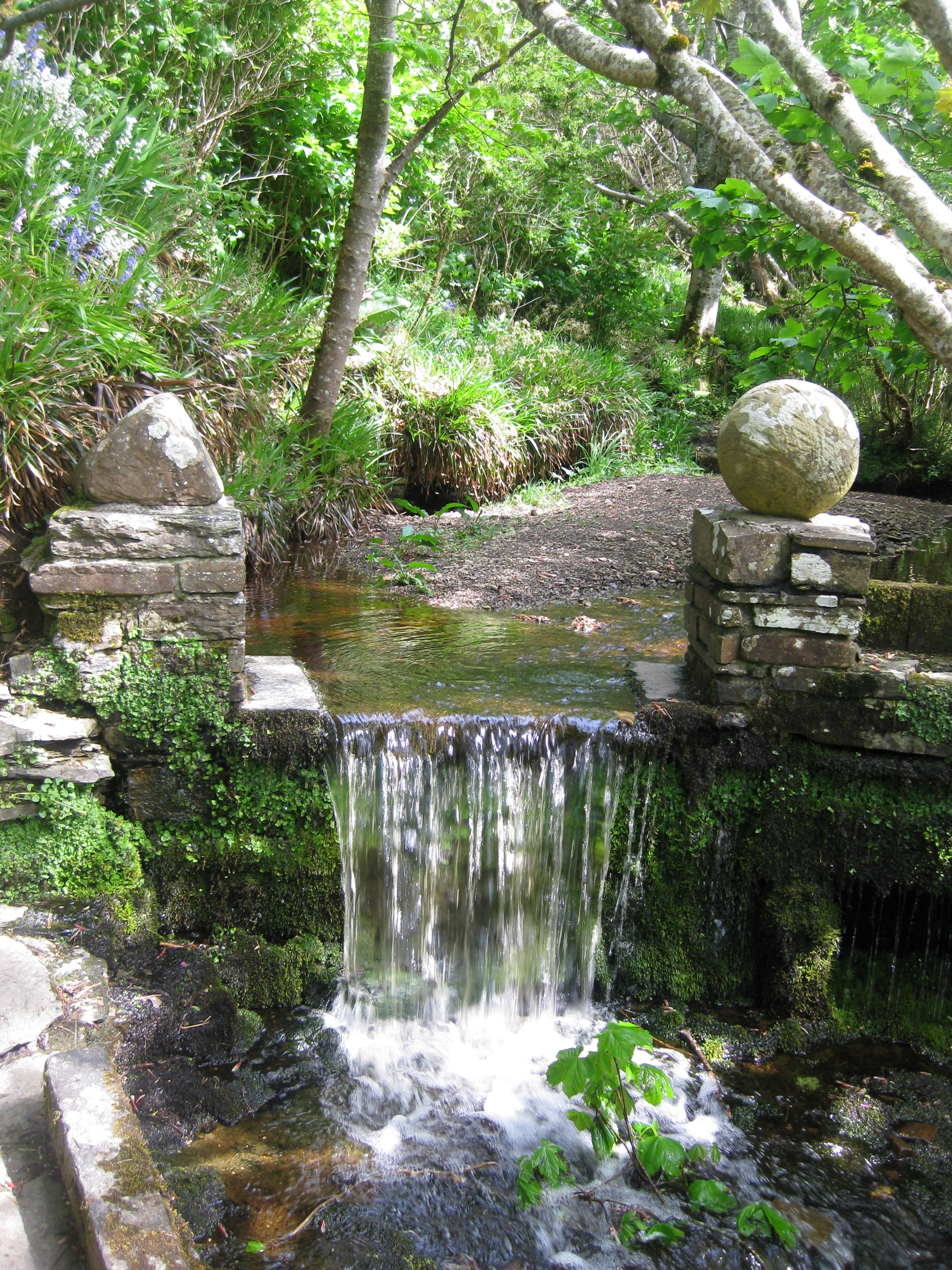 One of the waterfalls built by Edwin Harrold in Happy Valley garden, Orkney.